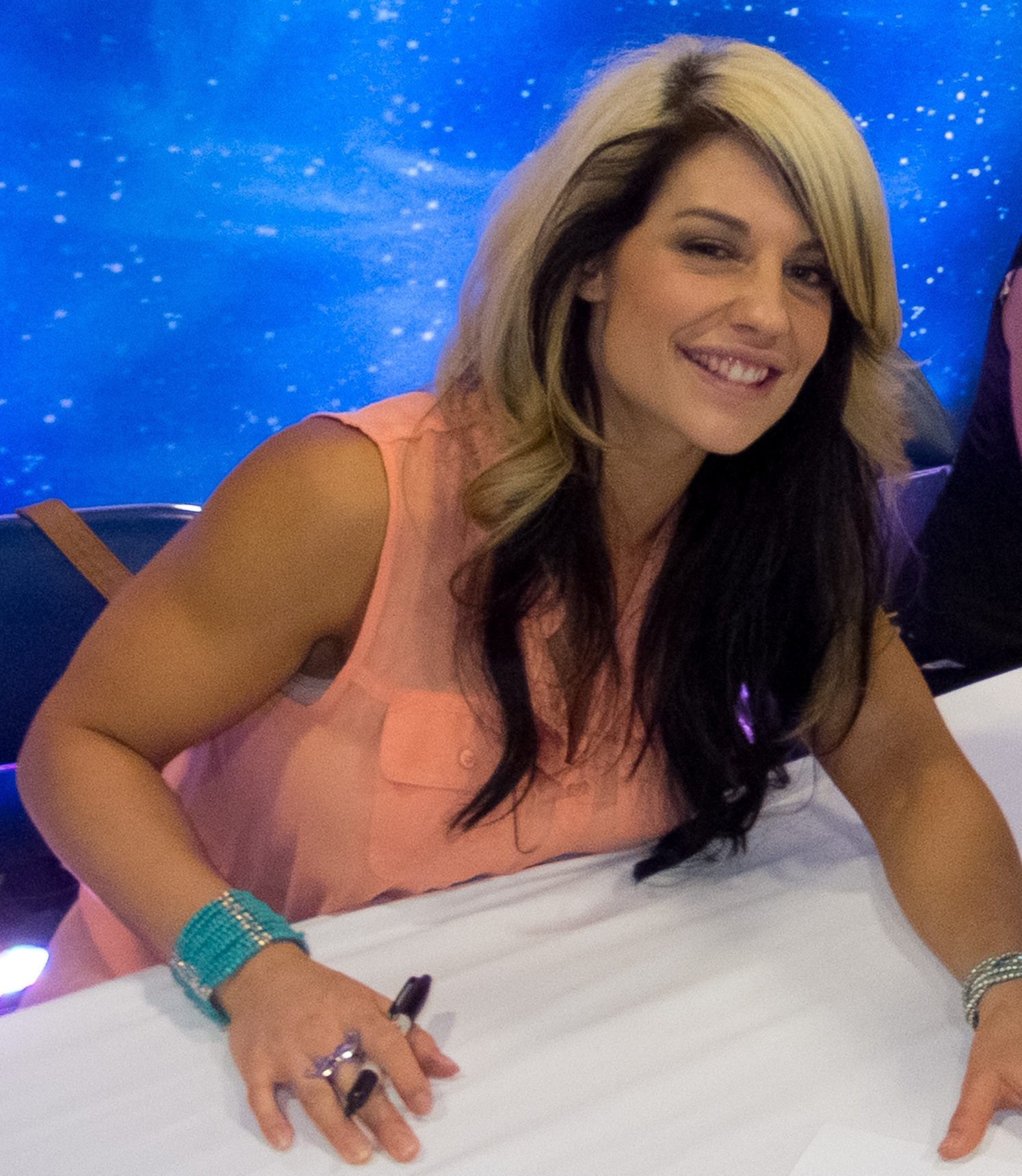 Professional wrestler Kaitlyn (Celeste Bonin) at a WrestleMania Axxess signing.